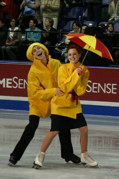 Tessa Virtue and Scott Moir during their exhibition program at the 2006 Skate Canada International.